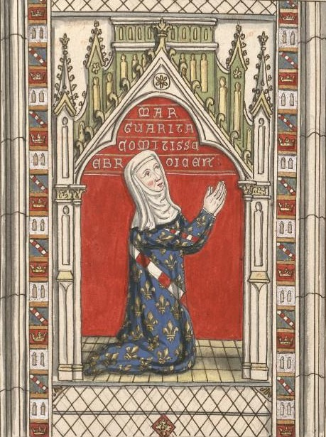 Margaret of Artois